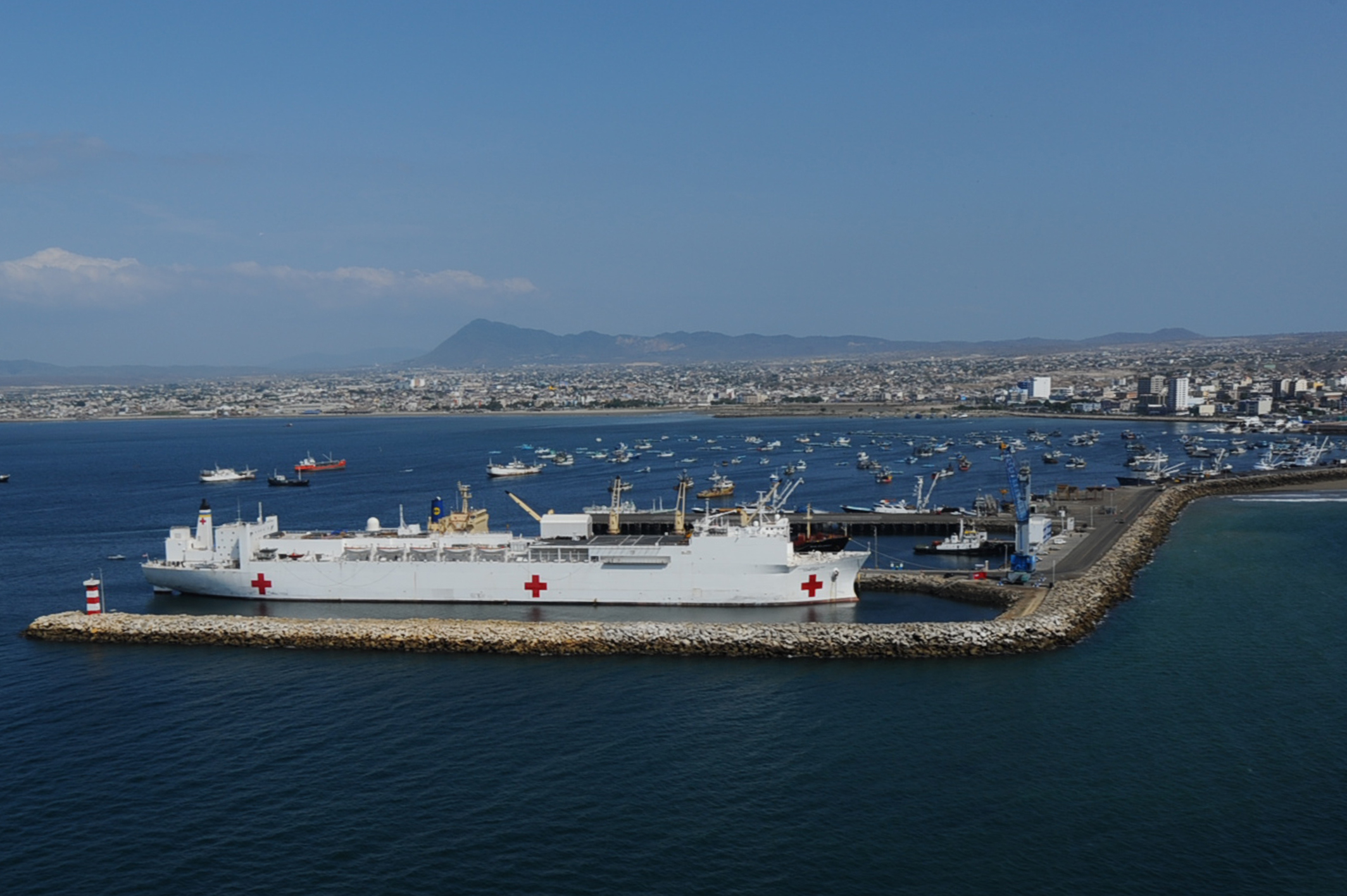 MANTA, Ecuador (May 21, 2011) The Military Sealift Command hospital ship USNS Comfort (T-AH 20) is pierside during a scheduled port visit to Manta, Ecuador. Comfort is supporting Continuing Promise 2011, a five-month humanitarian assistance mission to the Caribbean, Central and South America. (U.S. Air Force photo by Senior Airman Kasey Close/Released)